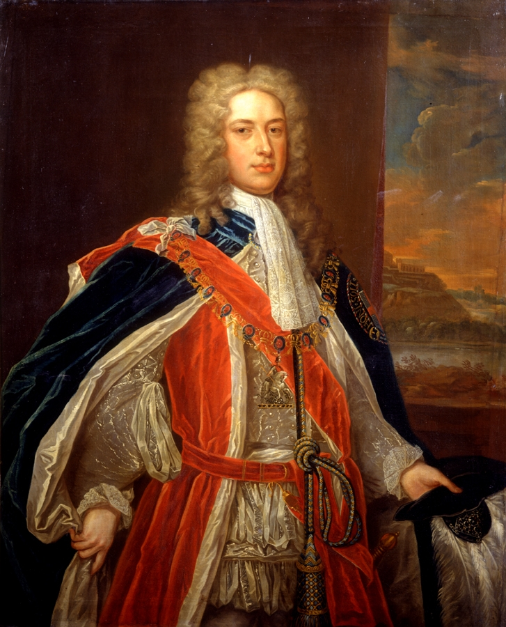 Thomas Pelham-Holles, 1st Duke of Newcastle-upon-Tyne (1693-1768)